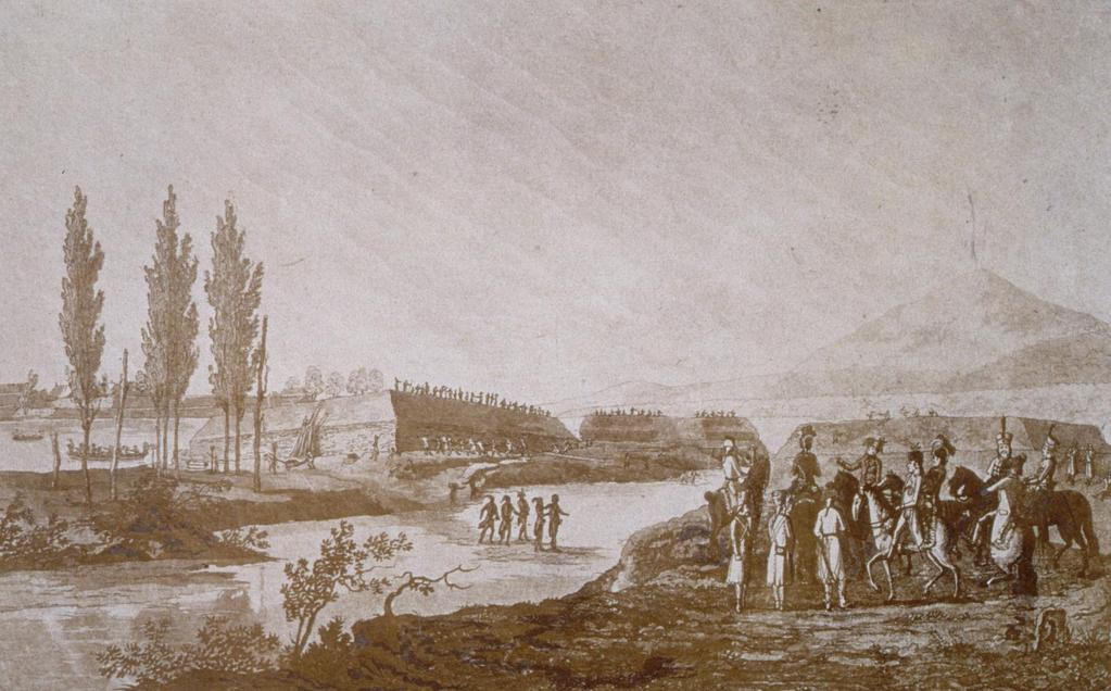 View of the Demolition of the tete de pont of Huningen, and the arrival of Archduke Cahrles 2 February 1797, by J.J. de Mechel 1764-1816